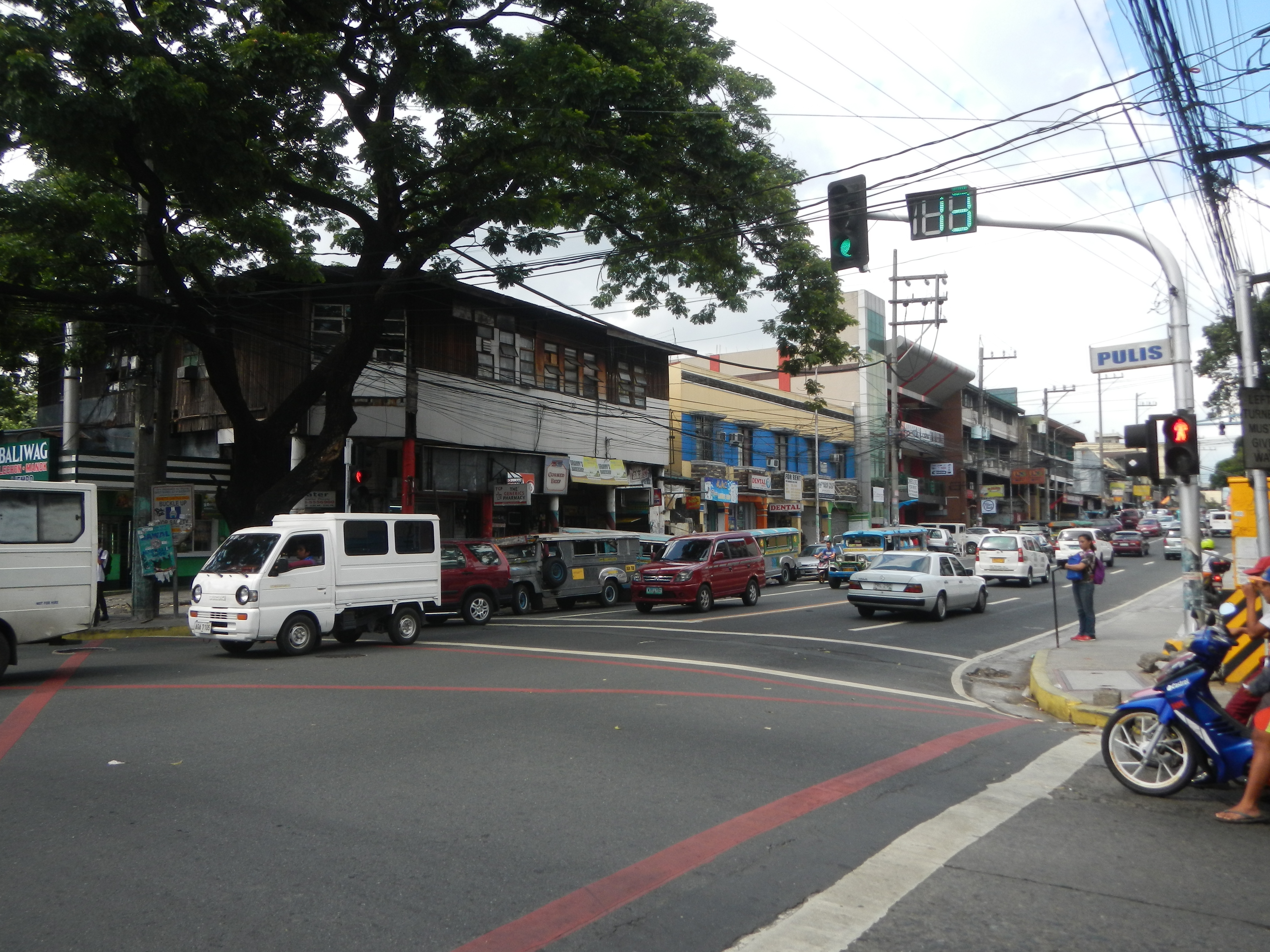 List of barangays of Metro Manila Legislative districts of Quezon City Districts IV, Barangays of Quezon City, Barangay Sacred Heart (Boy Scout Area), District IV, from and along Timog Avenue, Street corner Epifanio de los Santos Avenue (EDSA, GMA Kamuning section) of EDSA (road) Epifanio de los Santos Avenue Highway 54 beside Barangay Kamuning (Project 1), District IV, along Kamuning Road corner Judge Jimenez Street, Sergeant J. Catolos Street of and beside Barangay Immaculate Conception (Betty Go-Belmonte), Cubao, District IV, Quezon City.